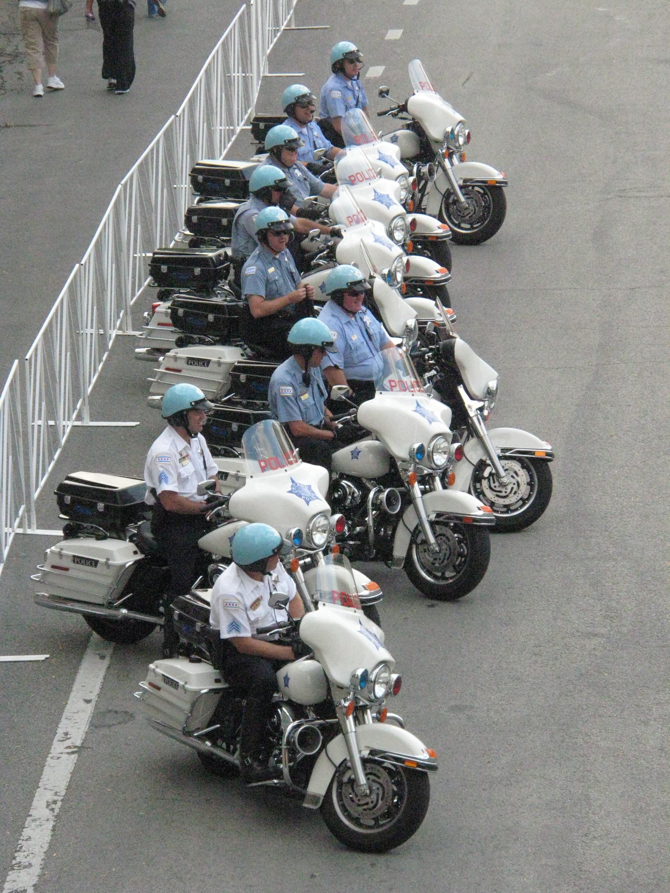 Chicago Marathon Chicago Police